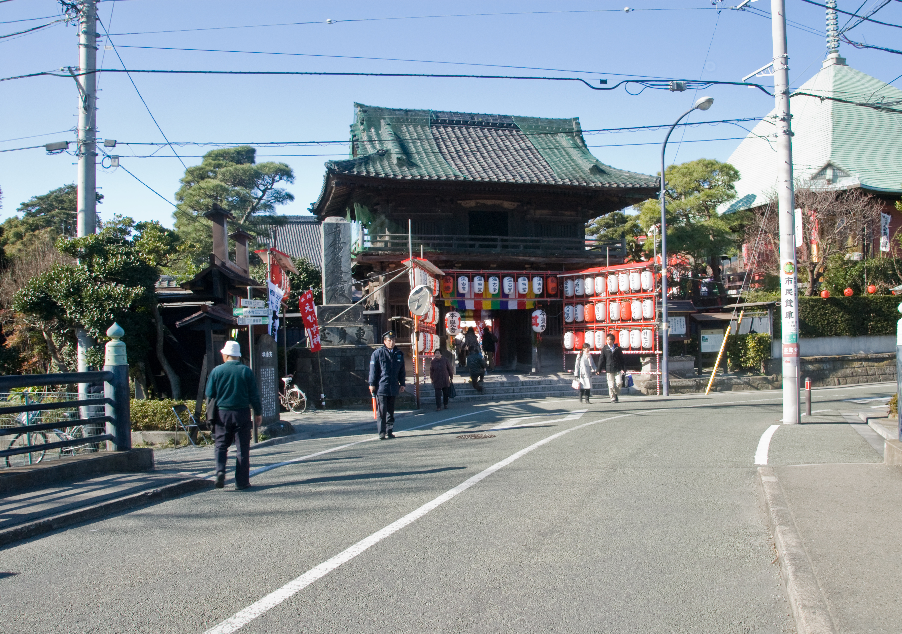 The point on Komachi Ōji at Ebisubashi Bridge where Komachi becomes Ōmachi